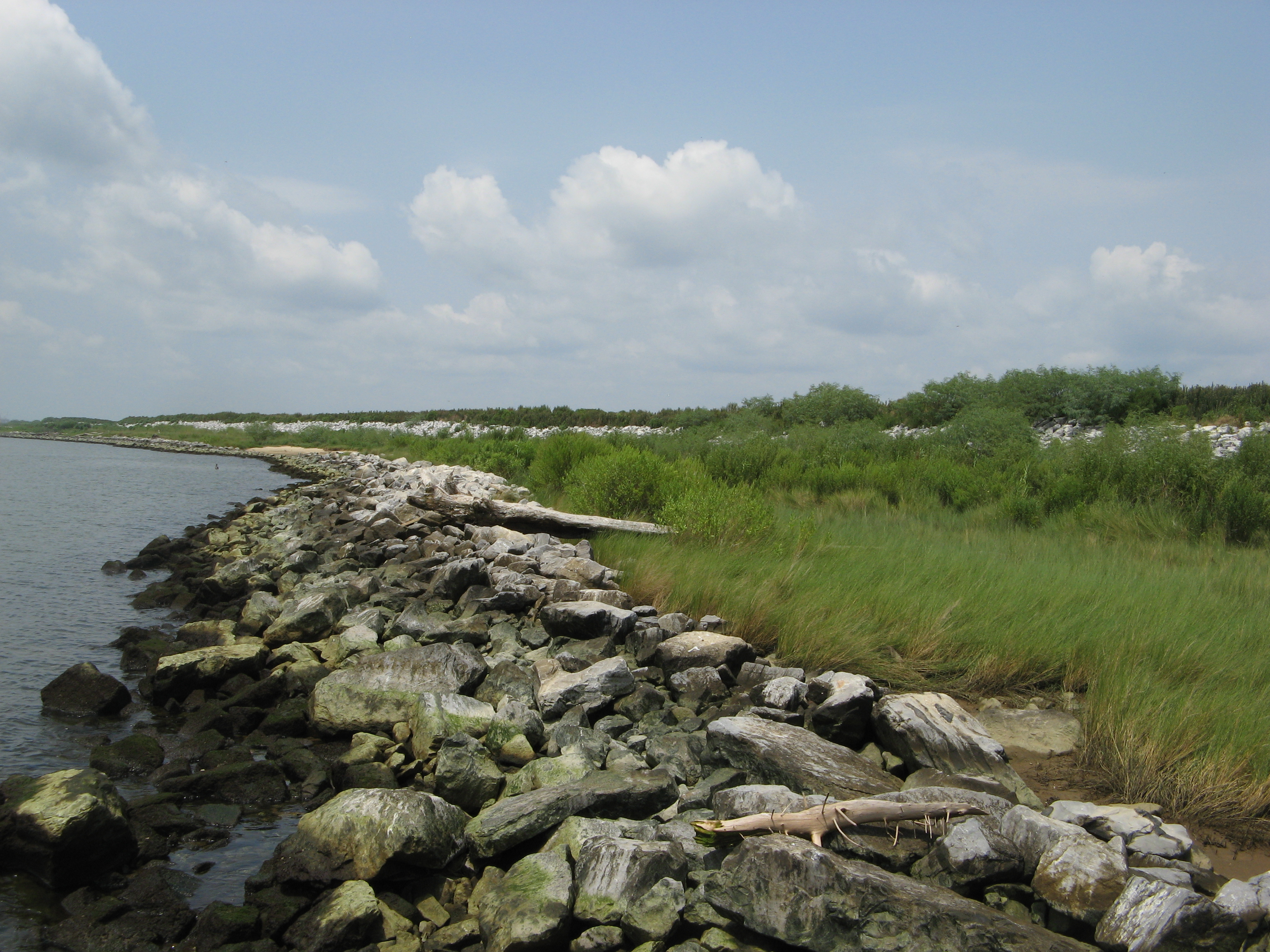 August 15, 2010 - Mobile Bay Alabama. Gaillard Island is approximately 1,300 acres. Credit: Michael Assenmacher, USFWS.